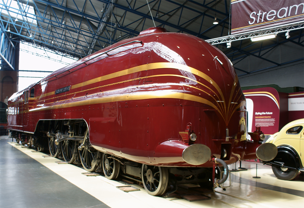 6229 'Duchess of Hamilton' at the National Railway Museum. I think this has got to be one of the best looking engines ever. I hope they get it running again soon! Taken 6th June 2009.